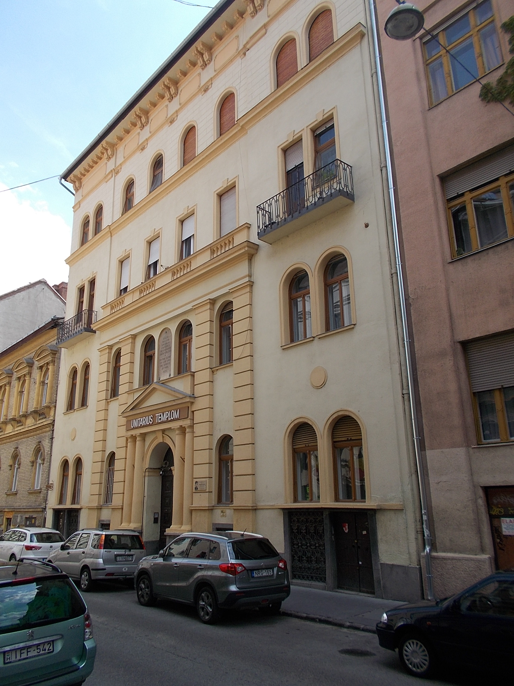 Béla Bartók Unitarian Church - Ferencváros district, Budapest, Hungary.